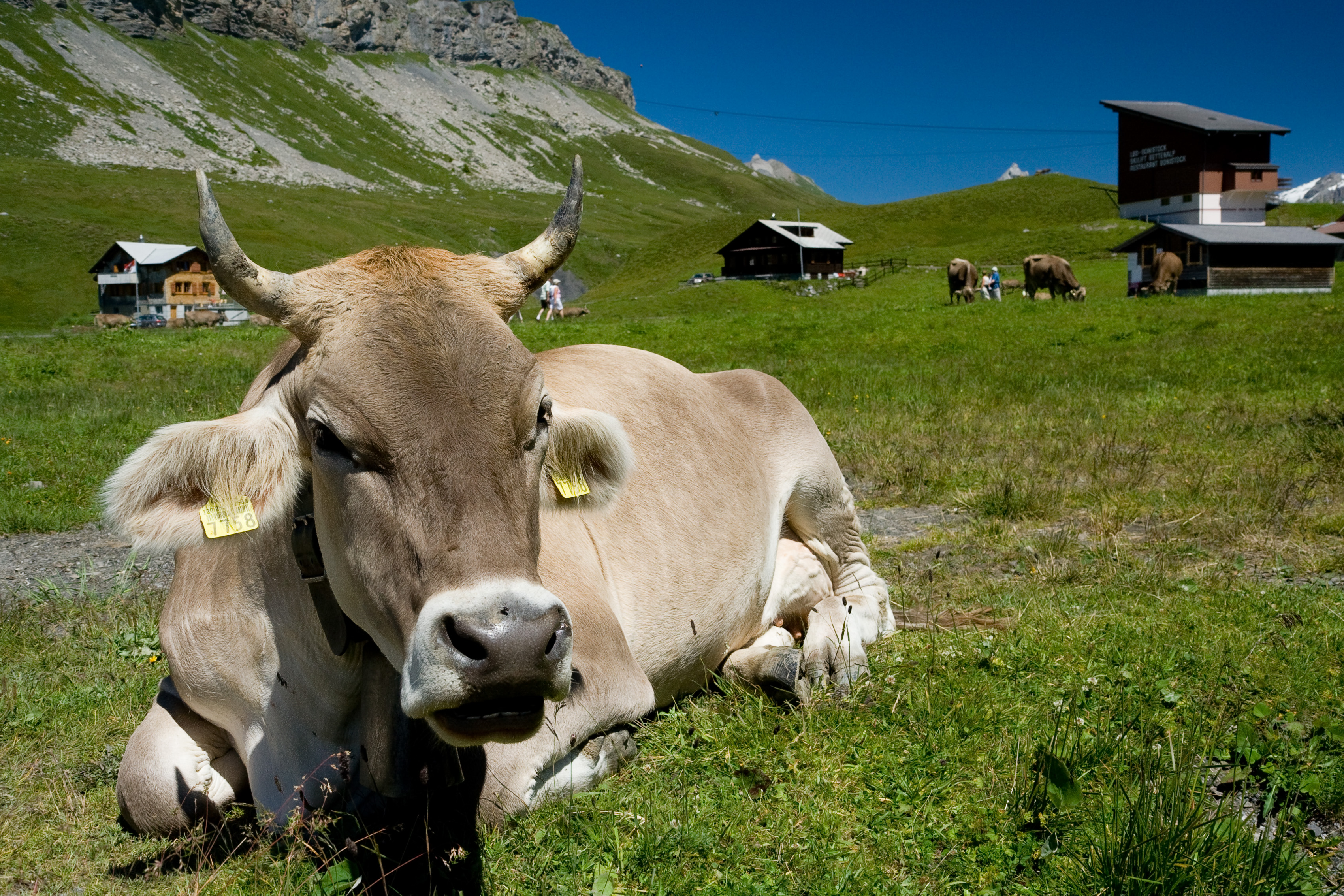 Braunvieh race cow in Melchsee-Frutt, Switzerland